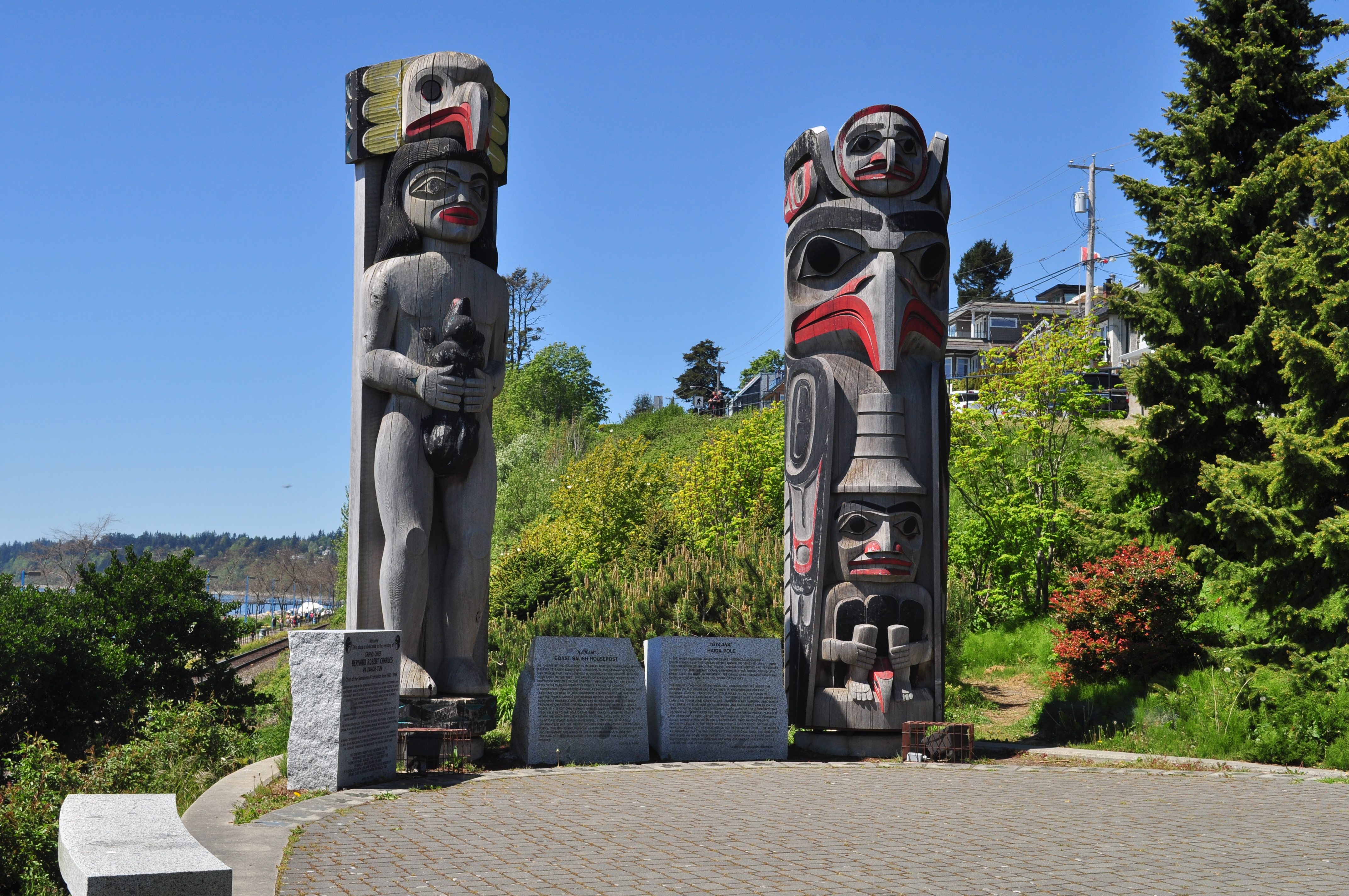 "Ka'kan" Coast Salish housepost and "Gyaana" Haida totem pole, Totem Plaza at Lions Lookout Park, White Rock, British Columbia, Canada. Carved from Western Red Cedar. The design for the housepost is by Coast Salish (Musqueam) artist Susan A. Point and for the totem pole by Robert Davidson. There is no clear delineation of posted credits for carving this and a nearby Haida totem pole, but the list of carvers includes Robert Davidson, Leonard Wells, Ben Davidson, Leslie Wells, Reg Davidson, and [illegible] Livingston.